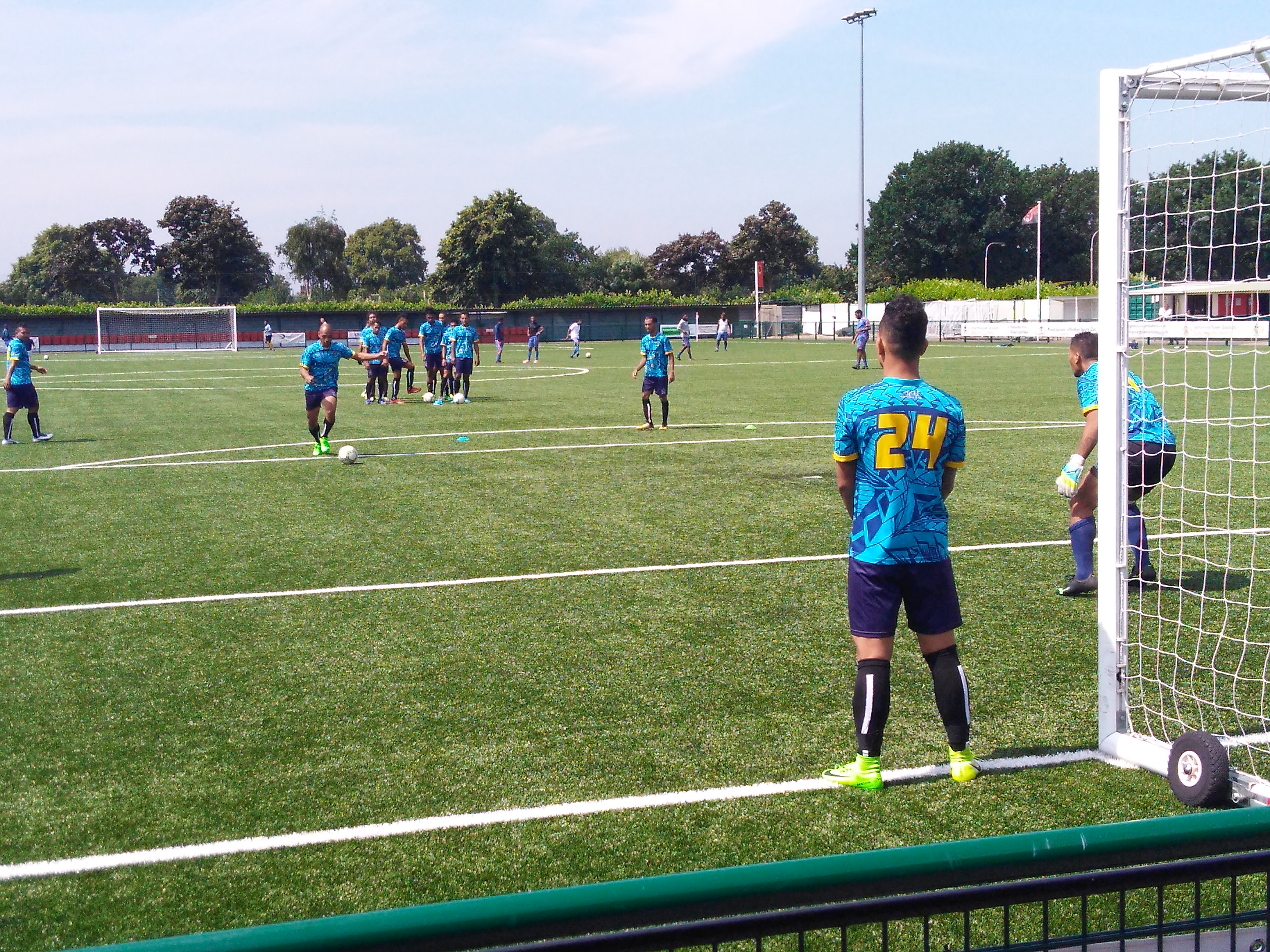 Tuvalu warm up before their win over the Chagos Islands, June 2018